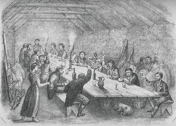 A meeting of Ribbonmen in 1851, as depicted in Trench's 1868 book Realities of Irish Life